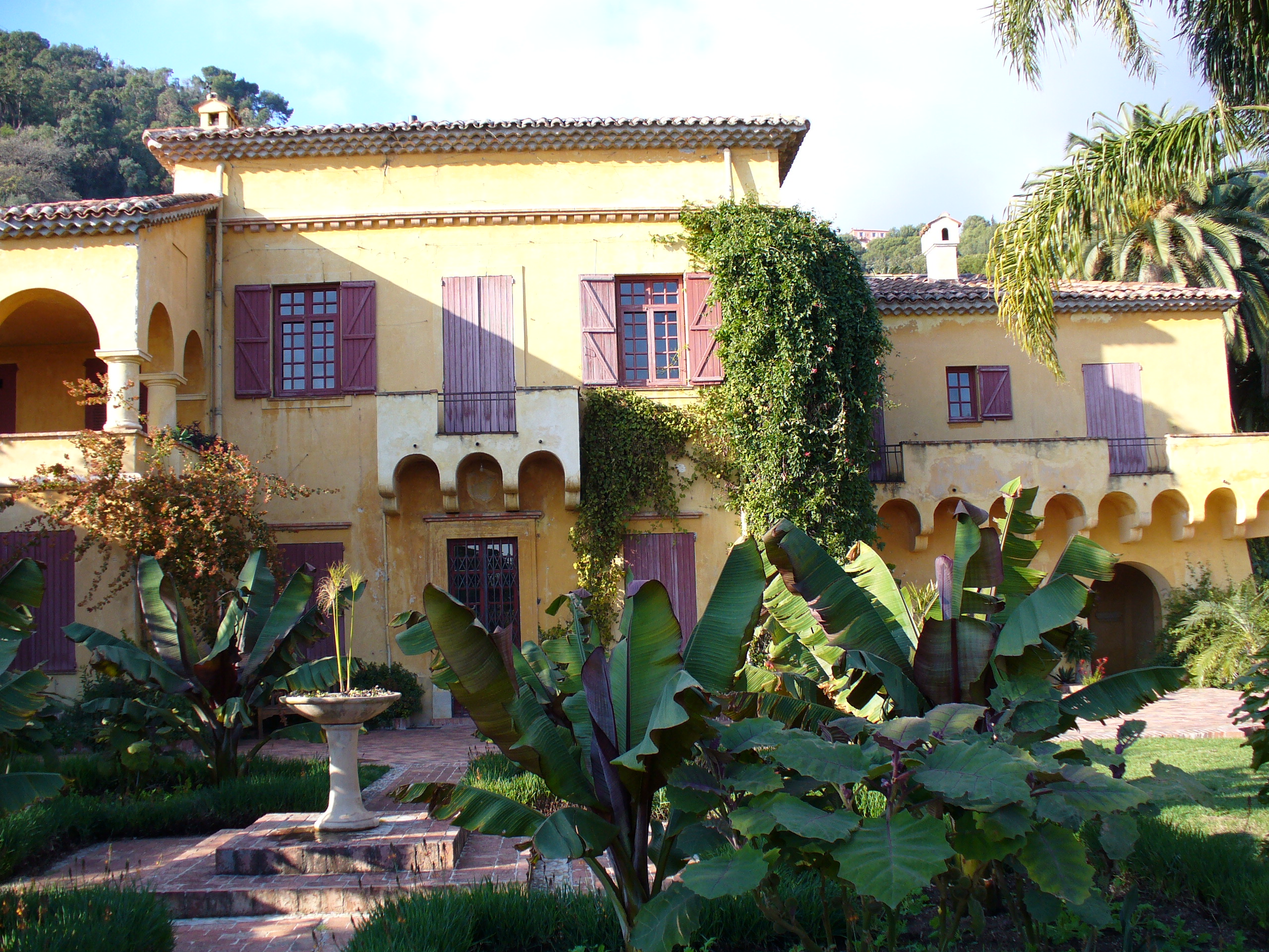 Val Rahmeh botanical garden, Menton, France